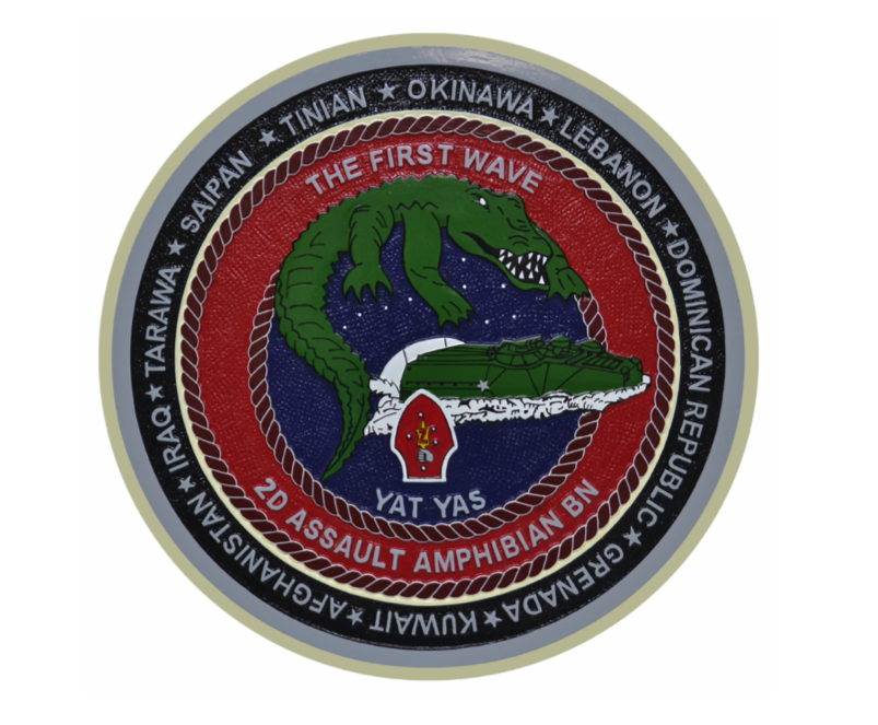 2d Assault Amphibian Battalion Emblem